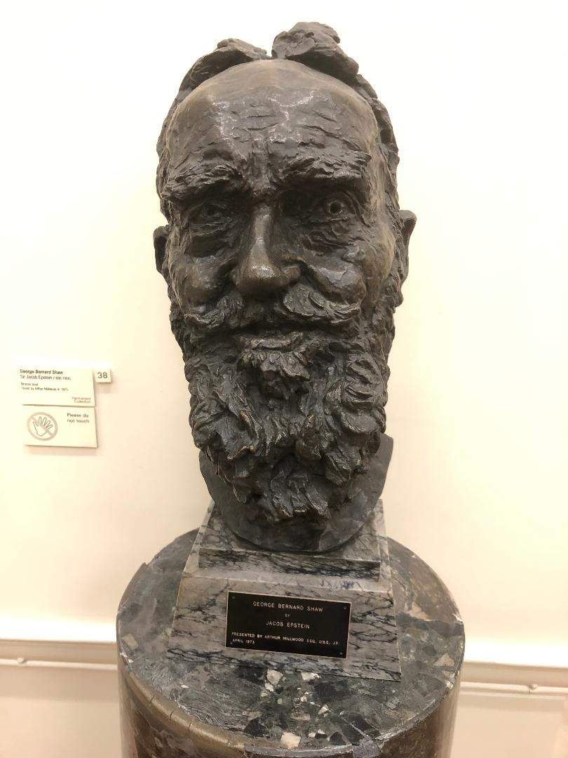 George Bernard Shaw - bust by Jacob Epstein